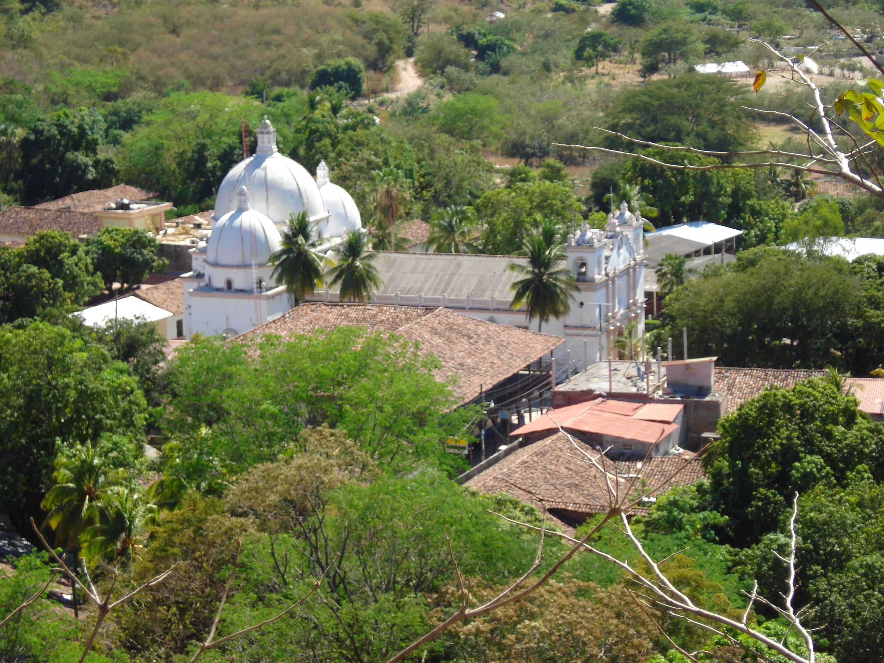 Cathedral of Pespire, municipality in the Honduran department of Choluteca.